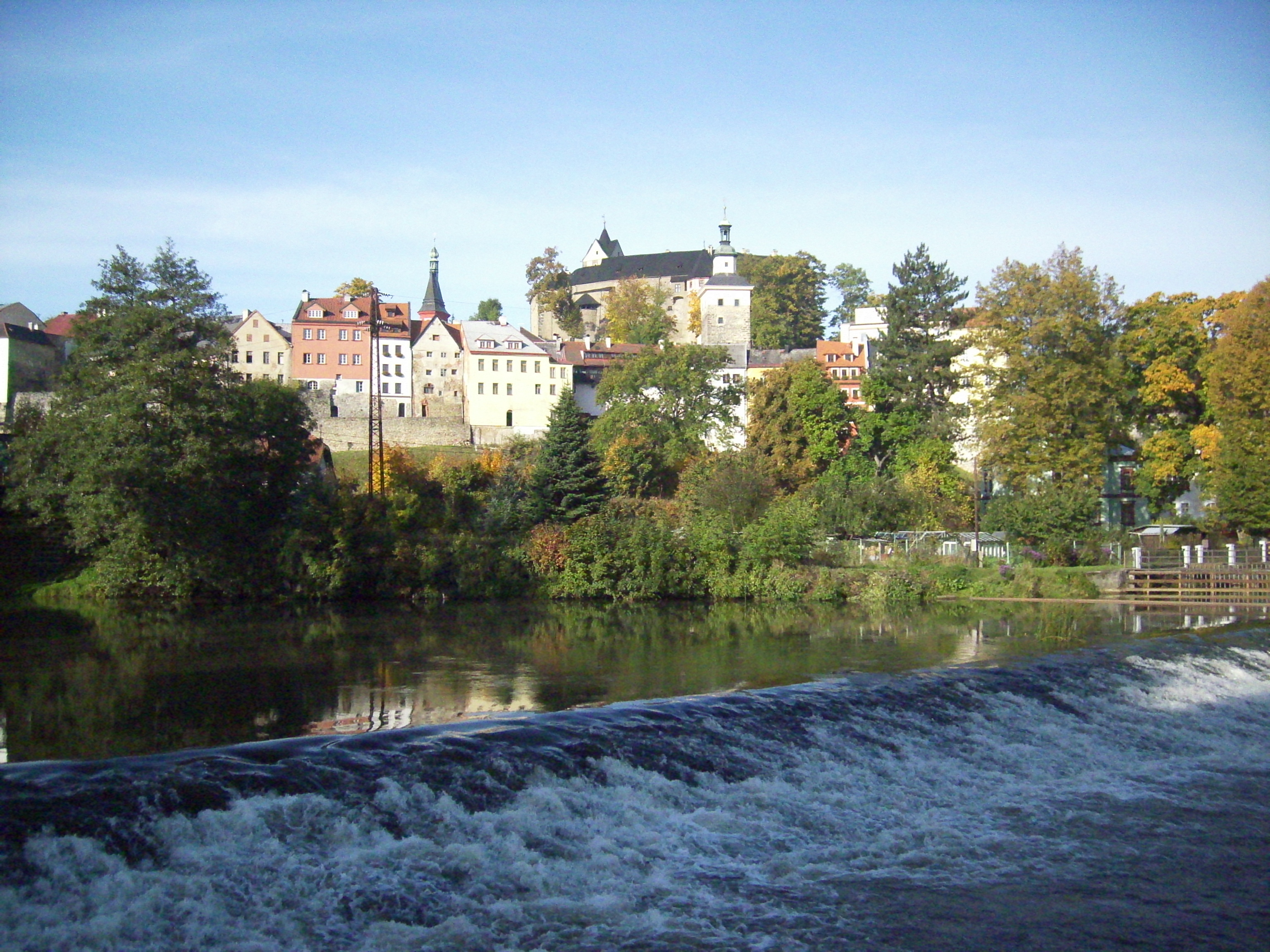 View to Loket Castle